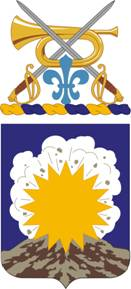 from the US Army's Institute of Heraldry (TIOH)